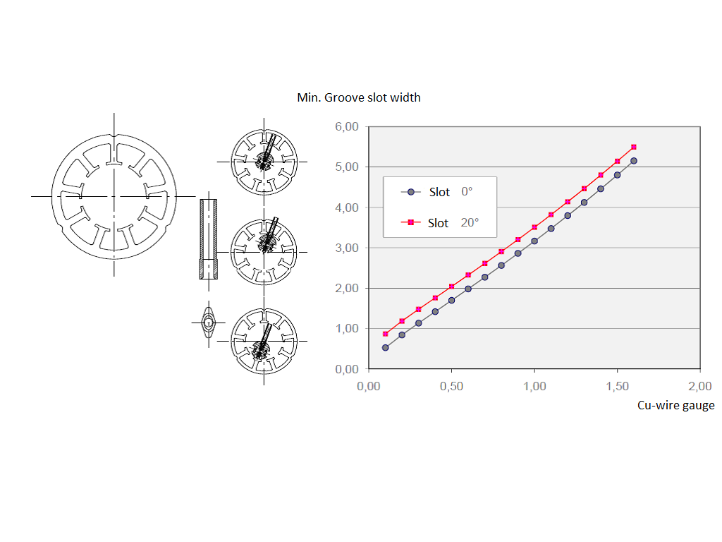 Nutschlitzbreite en